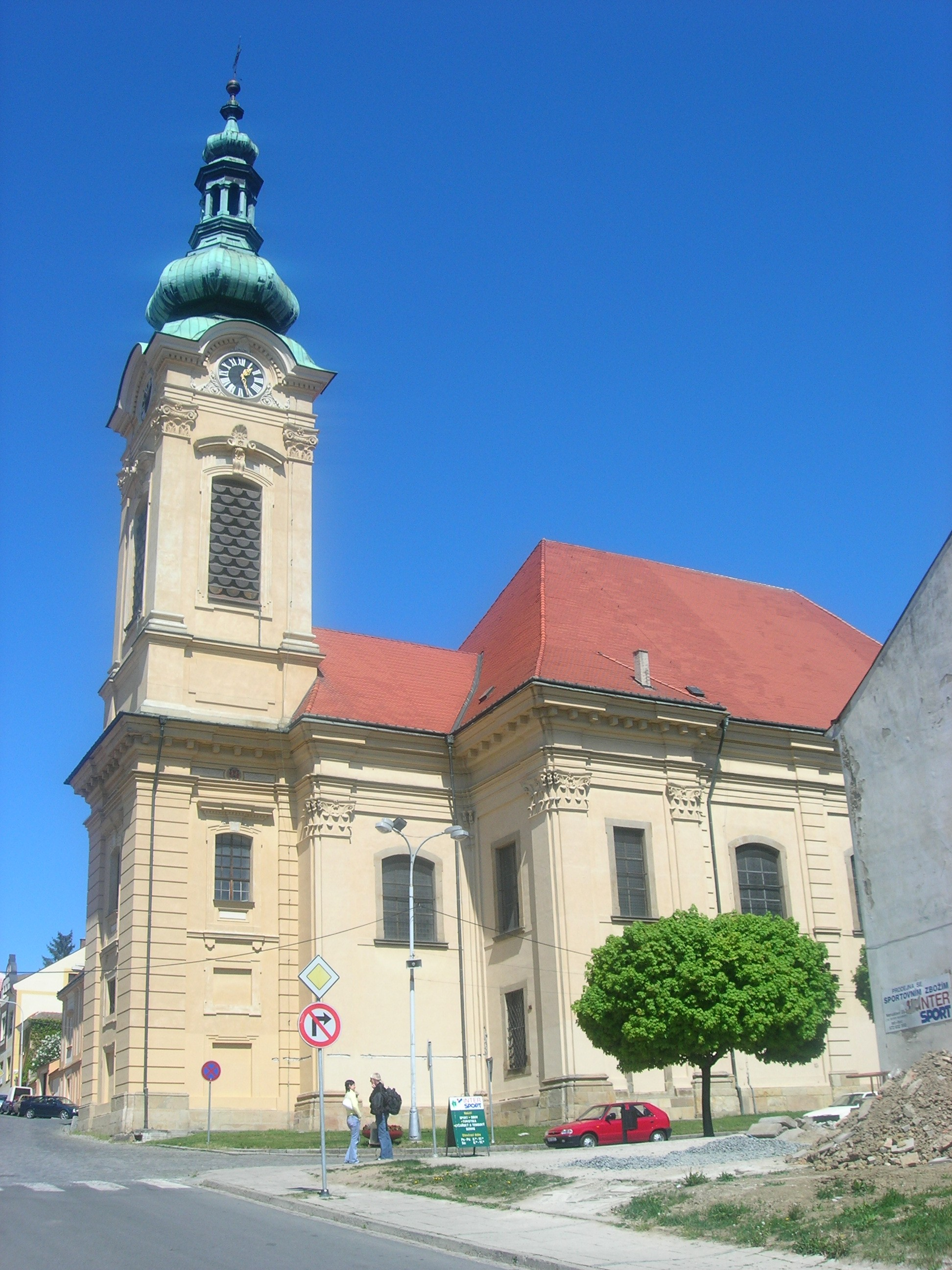 Church of the Immaculate Conception in Uherský Brod, Czech Republic